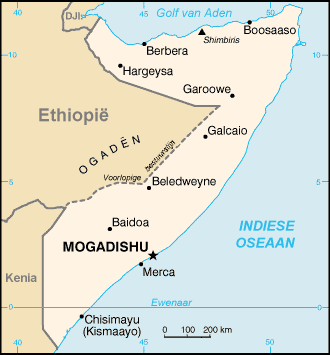 An Afrikaans map of Somalia.